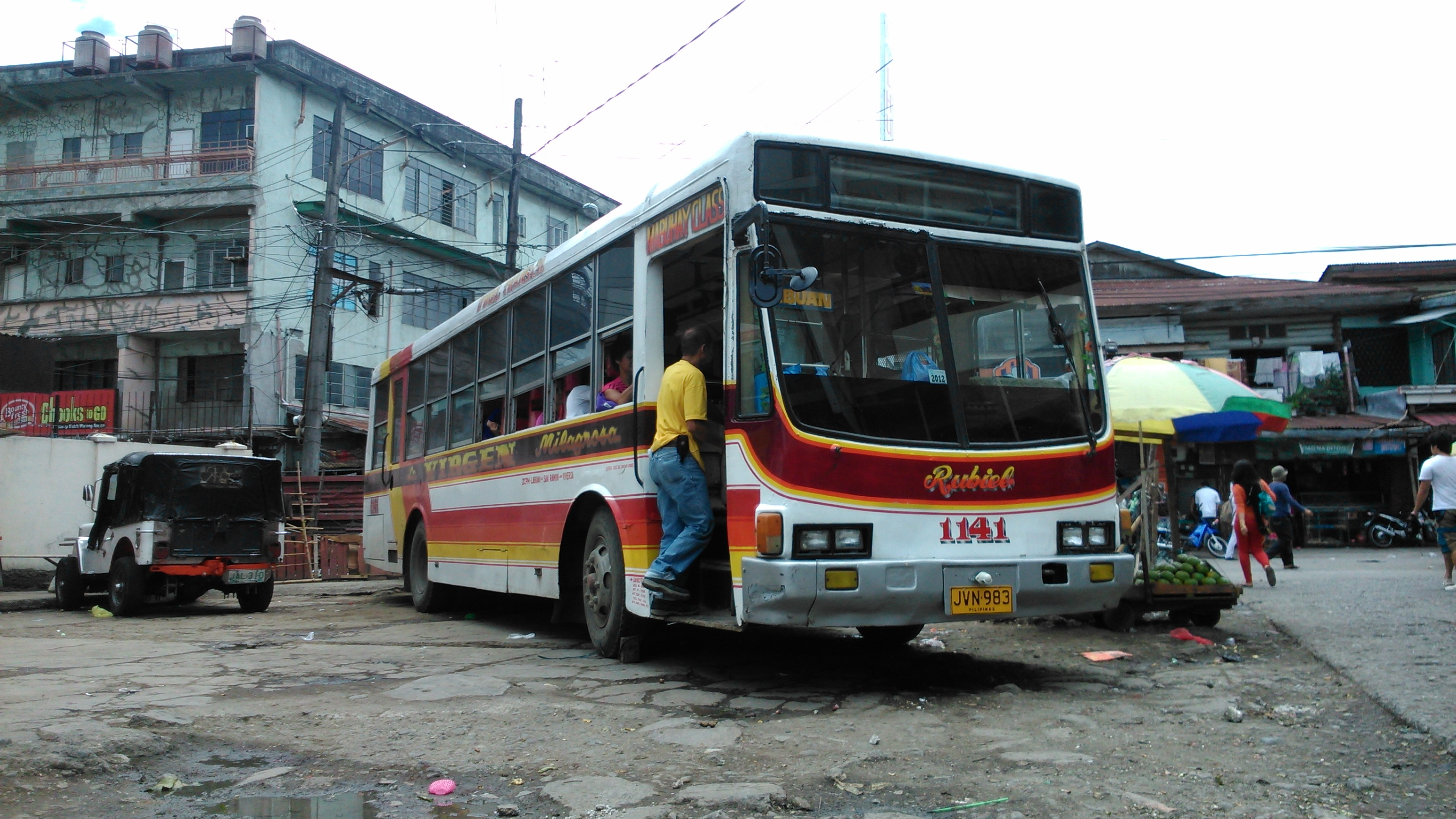 A D' Biel bus embarking passengers at the D' Biel Bus Terminal in Magay St., Zamboanga City. Pinoy Bus Fanatic